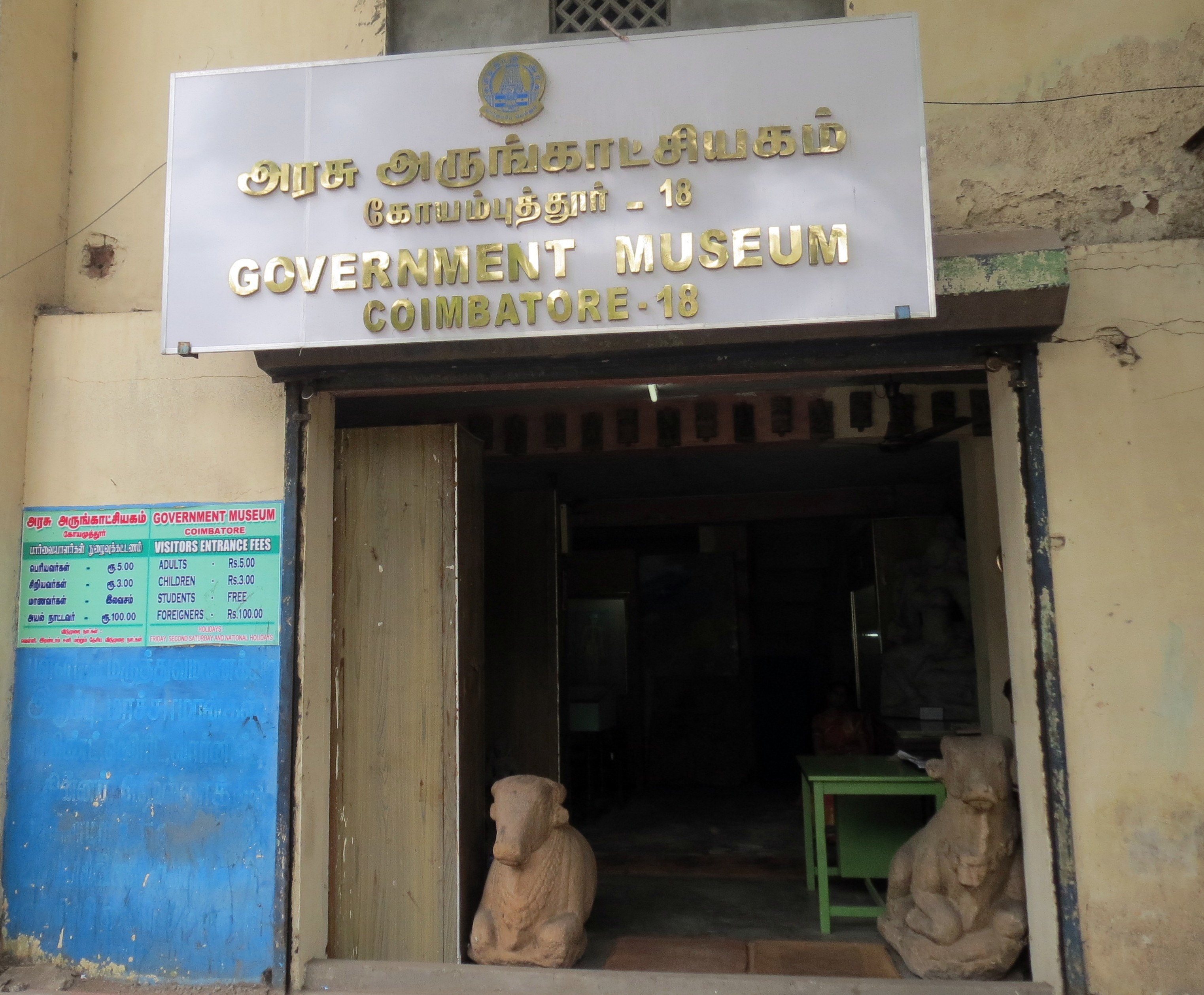 Front view of the government museum in Coimbatore, Tamil Nadu, India. Tamil: கோயம்புத்தூரில் உள்ள அரசு அருங்காட்சியகத்தின் முன்தோற்றம்.